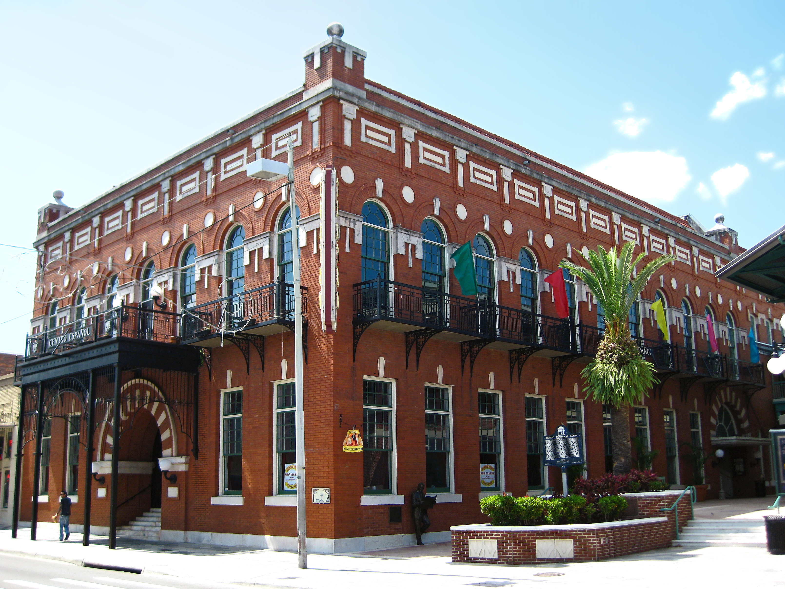 El Centro Español de Tampa, a U.S. National Historic Landmark in the Ybor City Historic District of Tampa, Florida. Iron balconies wrap around the east facade to the south facade along 7th Avenue, where they are joined by an iron canopy framing the main entrance.